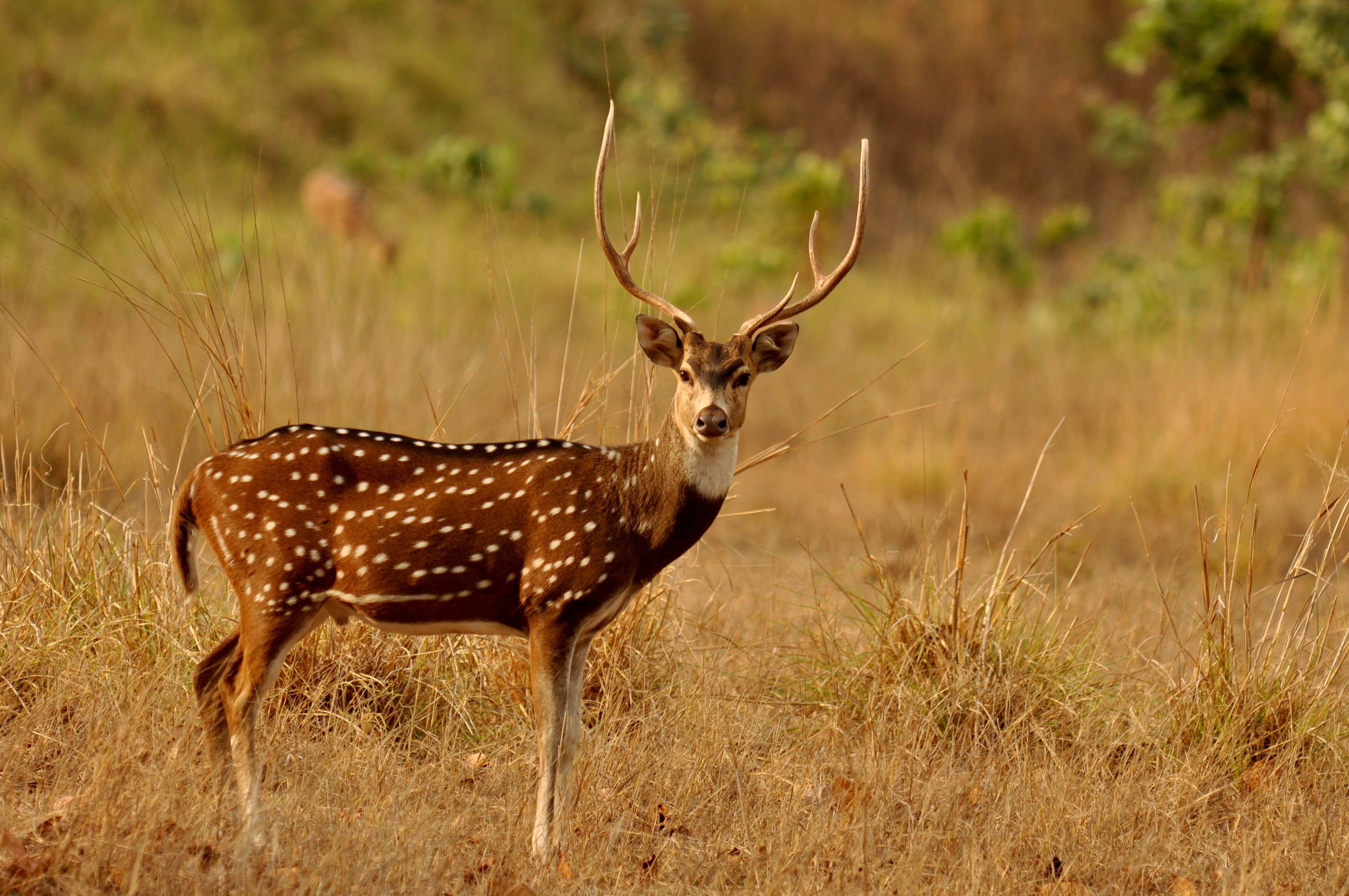 An adult male chital in hard anltler, Kanha, Central India